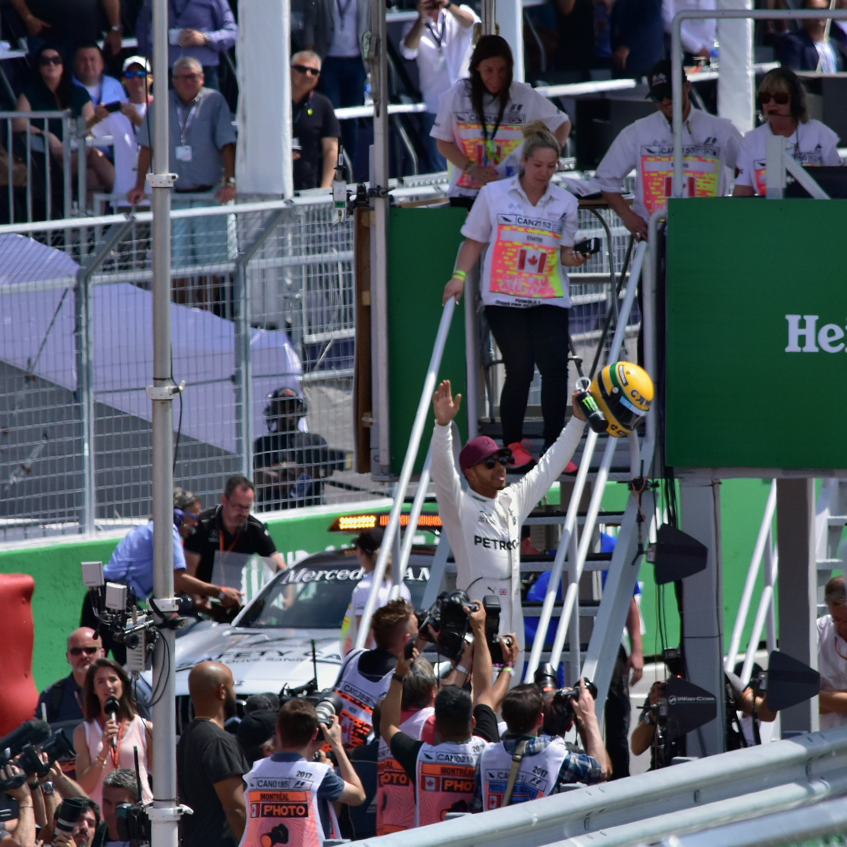 Showing Senna's helmet, that he had just been offered by the Senna family, the crowd.